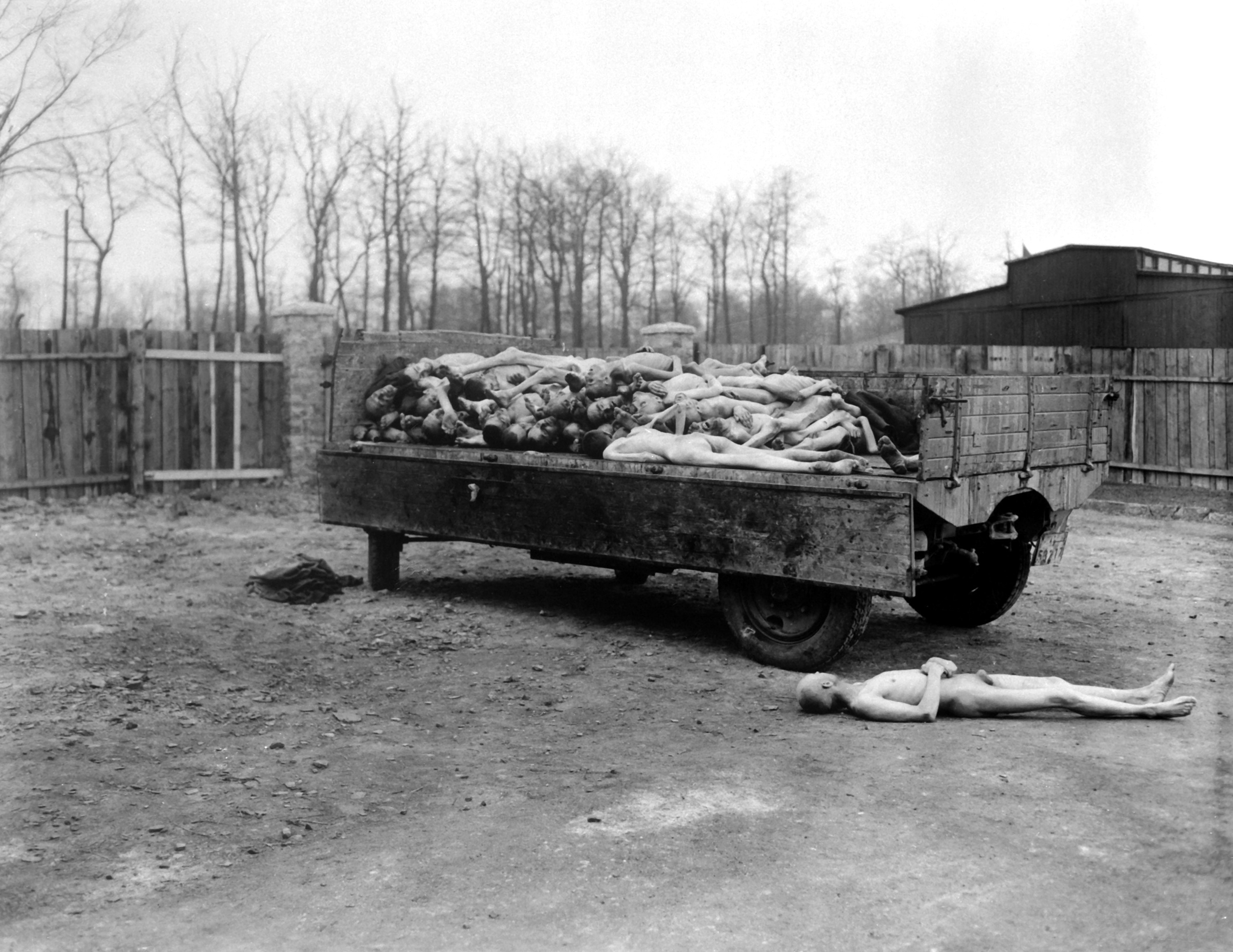 A truck load of bodies of prisoners of the Nazis, in the Buchenwald concentration camp at Weimar, Germany. The bodies were about to be disposed of by burning when the camp was captured by troops of the 3rd U.S. Army.